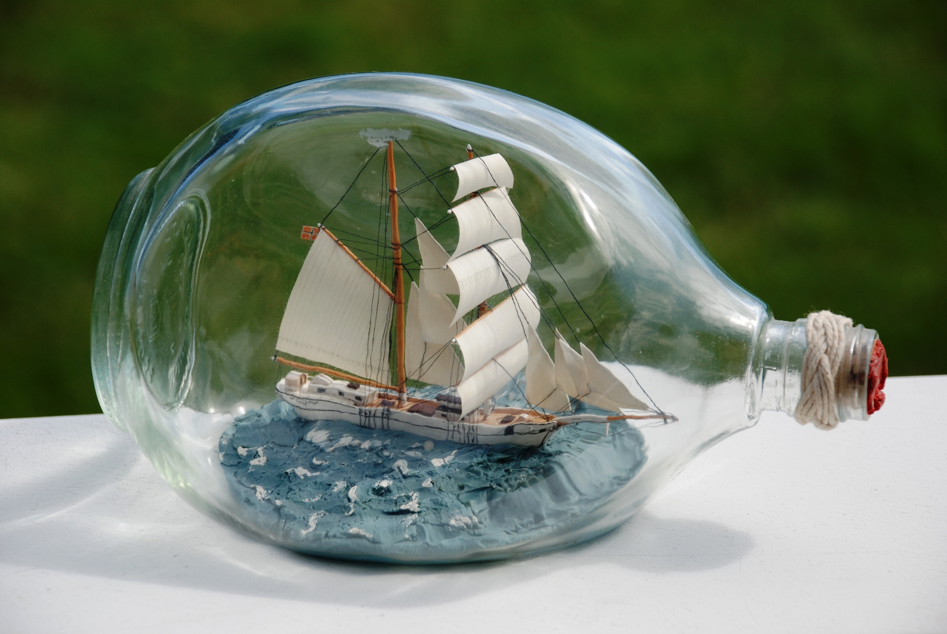 Ship in bottle. Brigantine. Built by Bjørnar Evenshaug (Norway) in 1987.